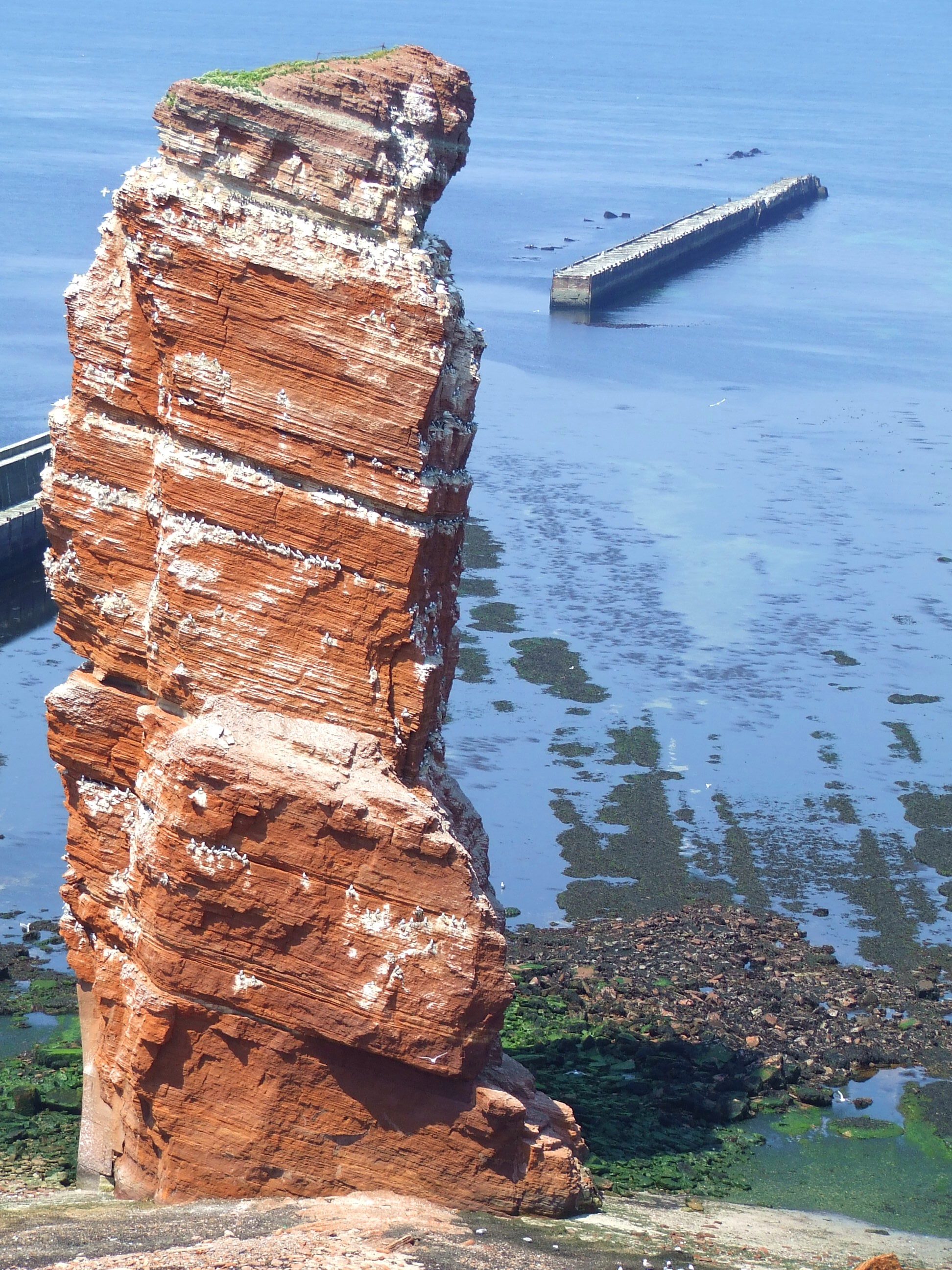 The "Lange Anna" is a 47 meter high stack of Buntsandstein (Lower Triassic).